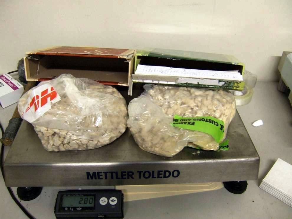 More than US$1 million in heroin discovered inside hollow books by U.S. Customs and Border Protection.